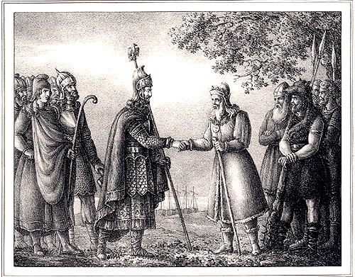 Captioned as "Odens ankomst till Sverige och förening med Gylfe (omkring 100 år f. Chr.)", according to the source page. Etching by Hugo Hamilton, depicting the meeting between Gylfi and Odin. Original image size approximately 17 x 22 cm.